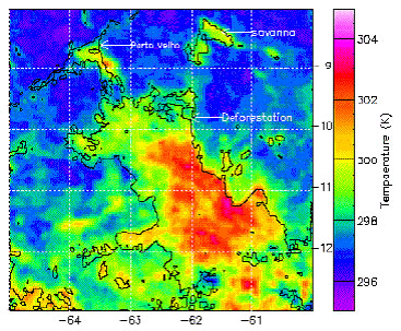 Effects of deforestation in Brazil on temperature taken from a NASA study